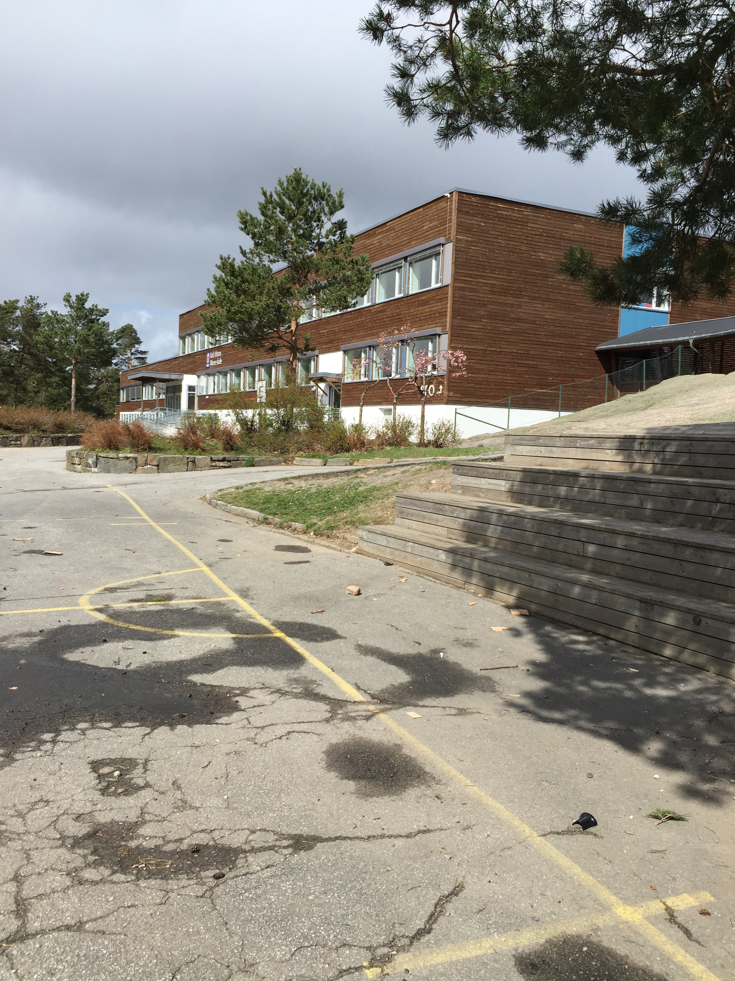 Karl Johan Memorial School, Kristiansand